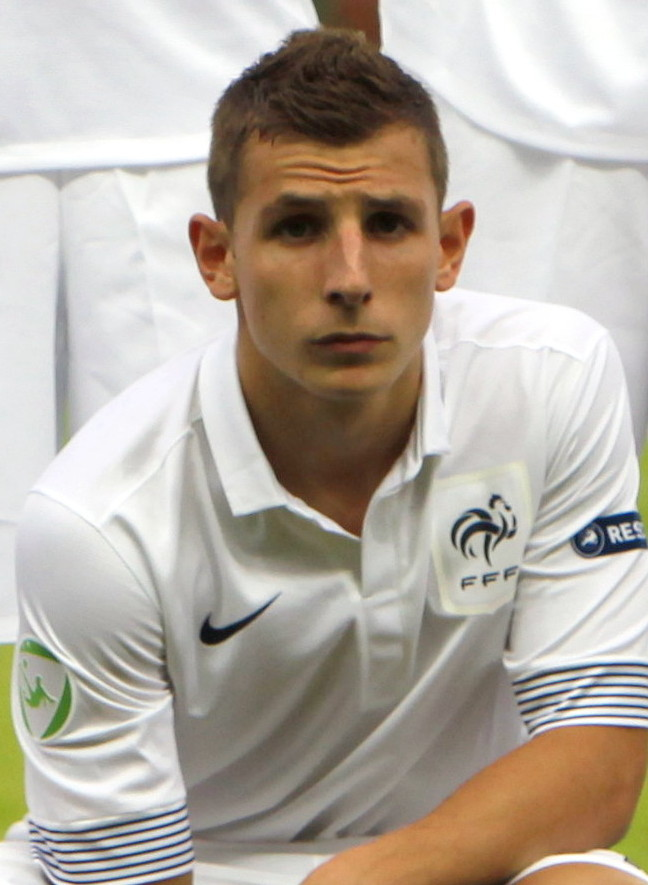 U-19 Spain vs France.